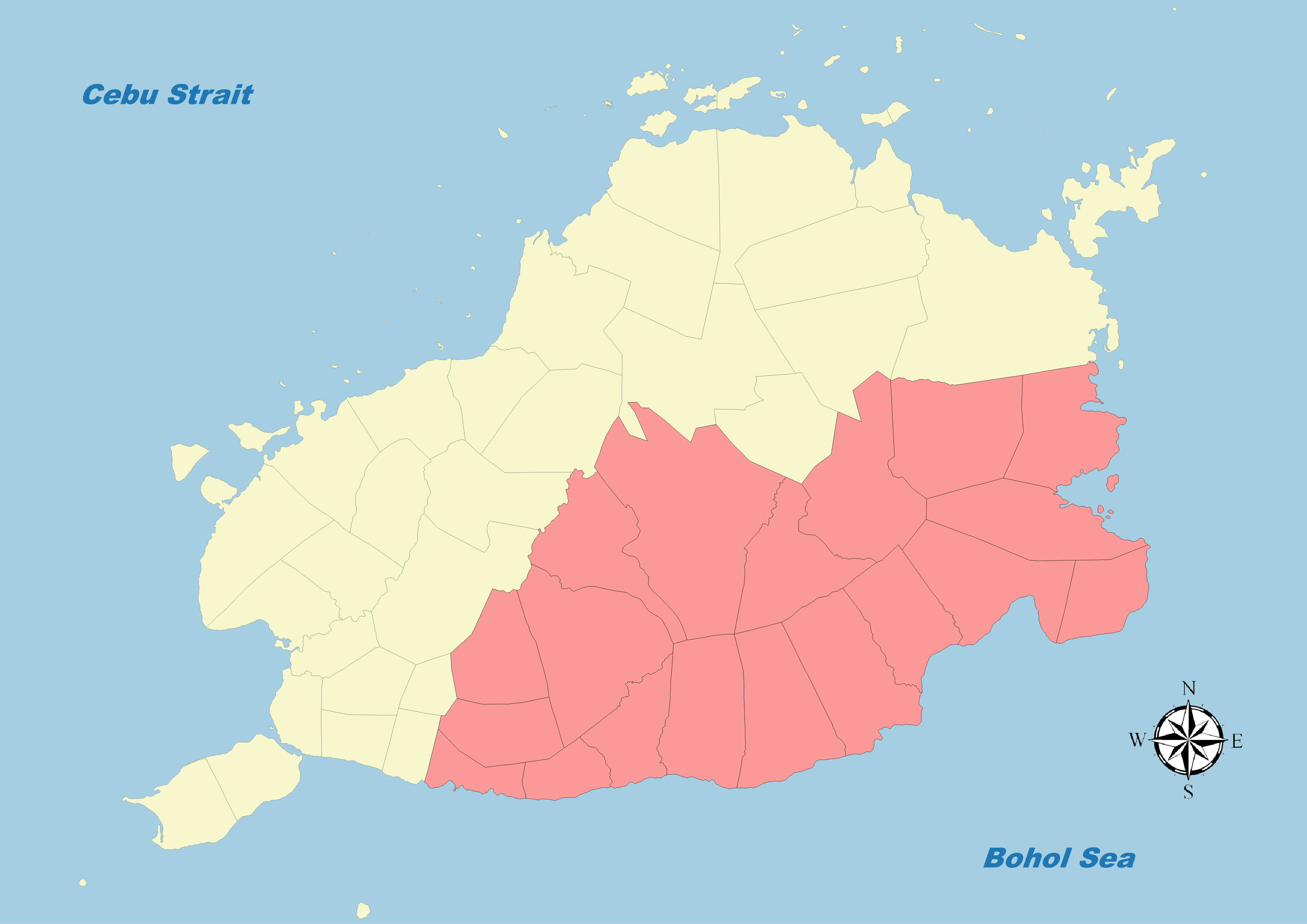 Map of Bohol's Second District (1987-present)